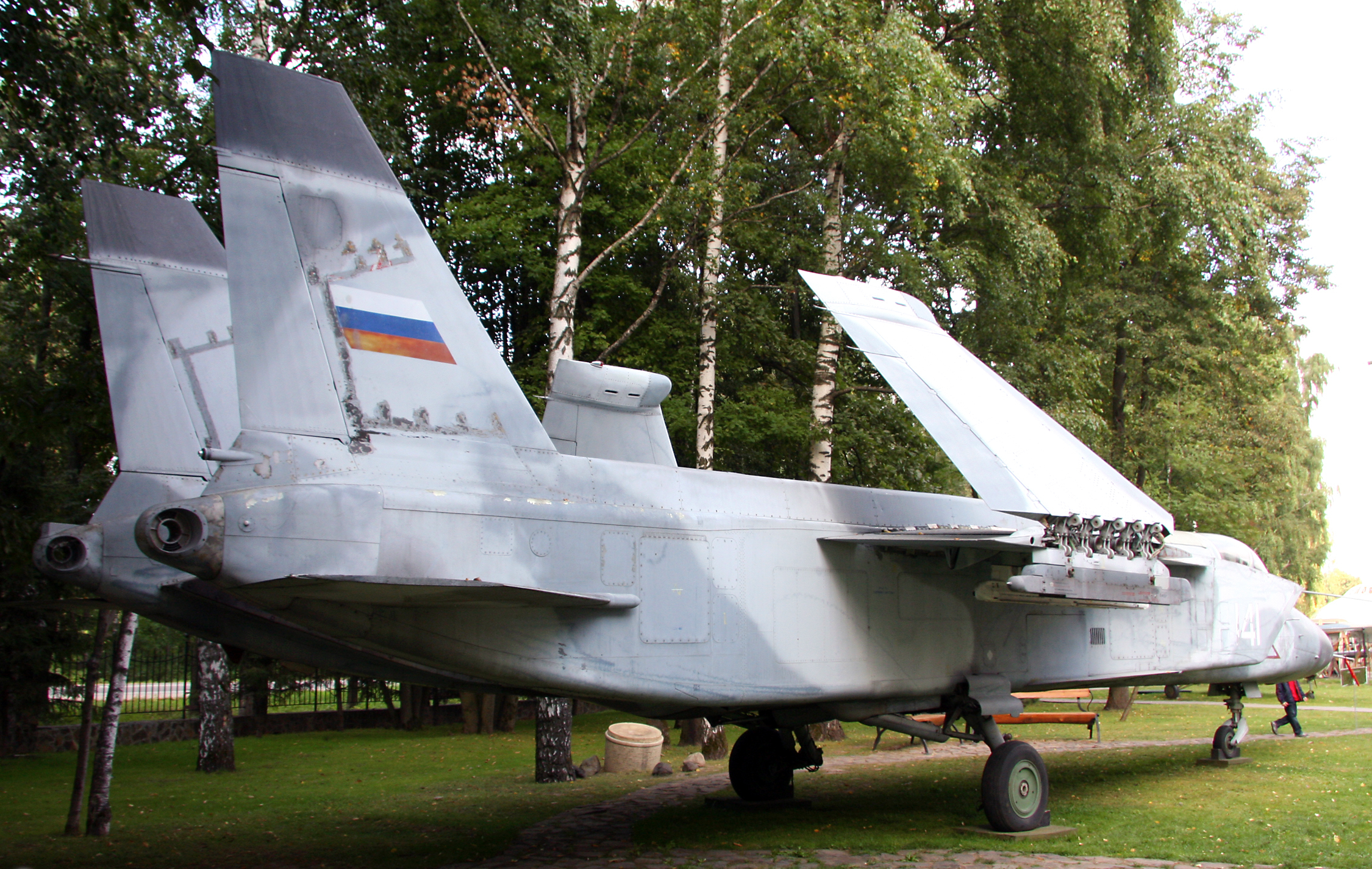 Yak-141 VTOL fighter at Museum of technique of Vadim Zadorogny